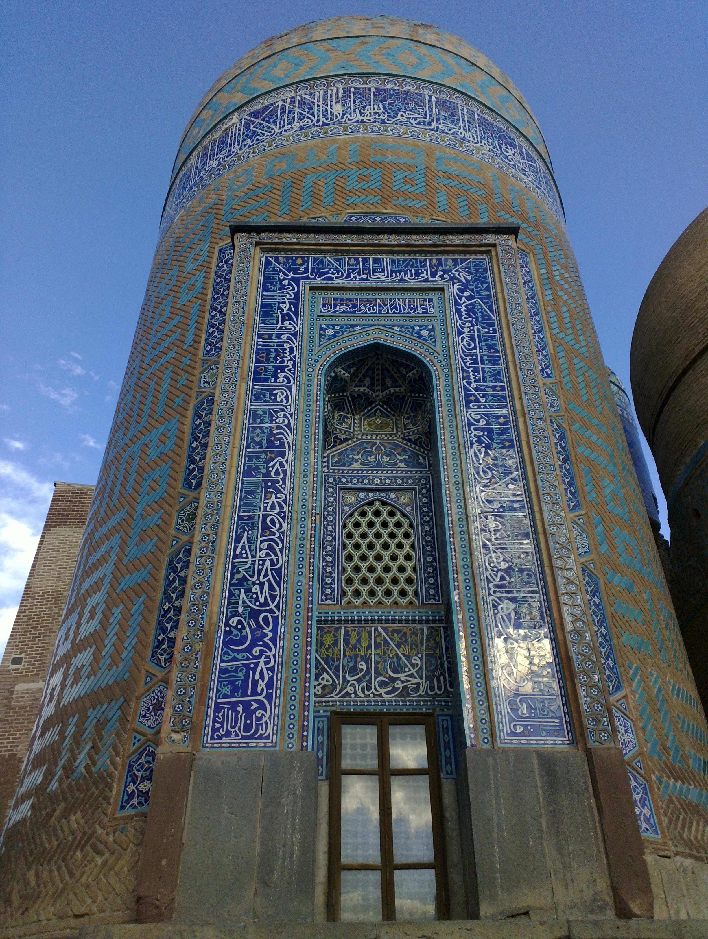 Dome of Allah - Allah mausoleum of Sheikh Safi Al-Din(Addin-Persian:الدین) Ardabili